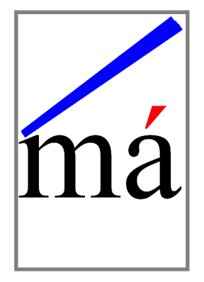 second tone of Mandarin Chinese